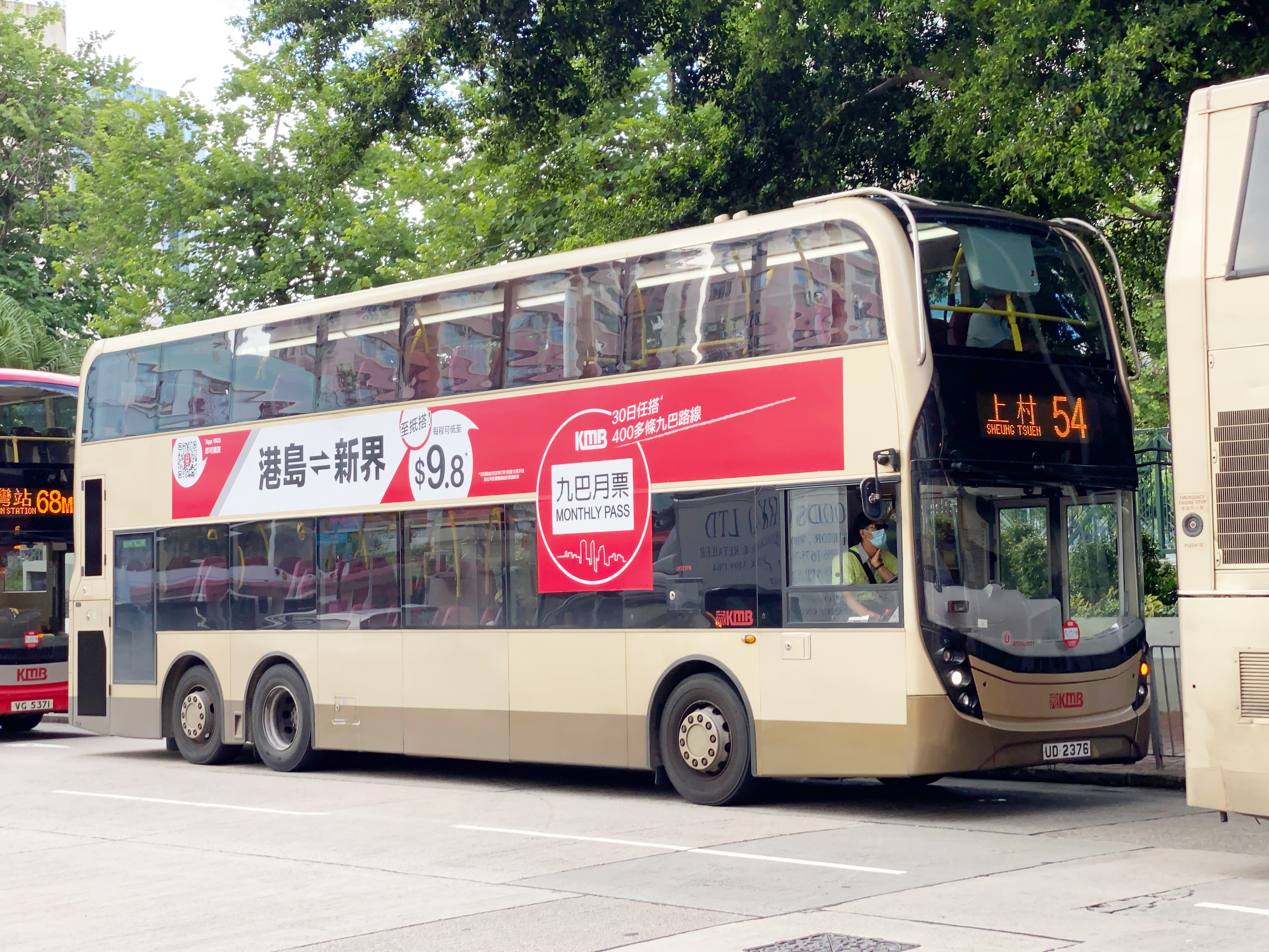 中文（香港）: This photo is taken in Yuen Long.